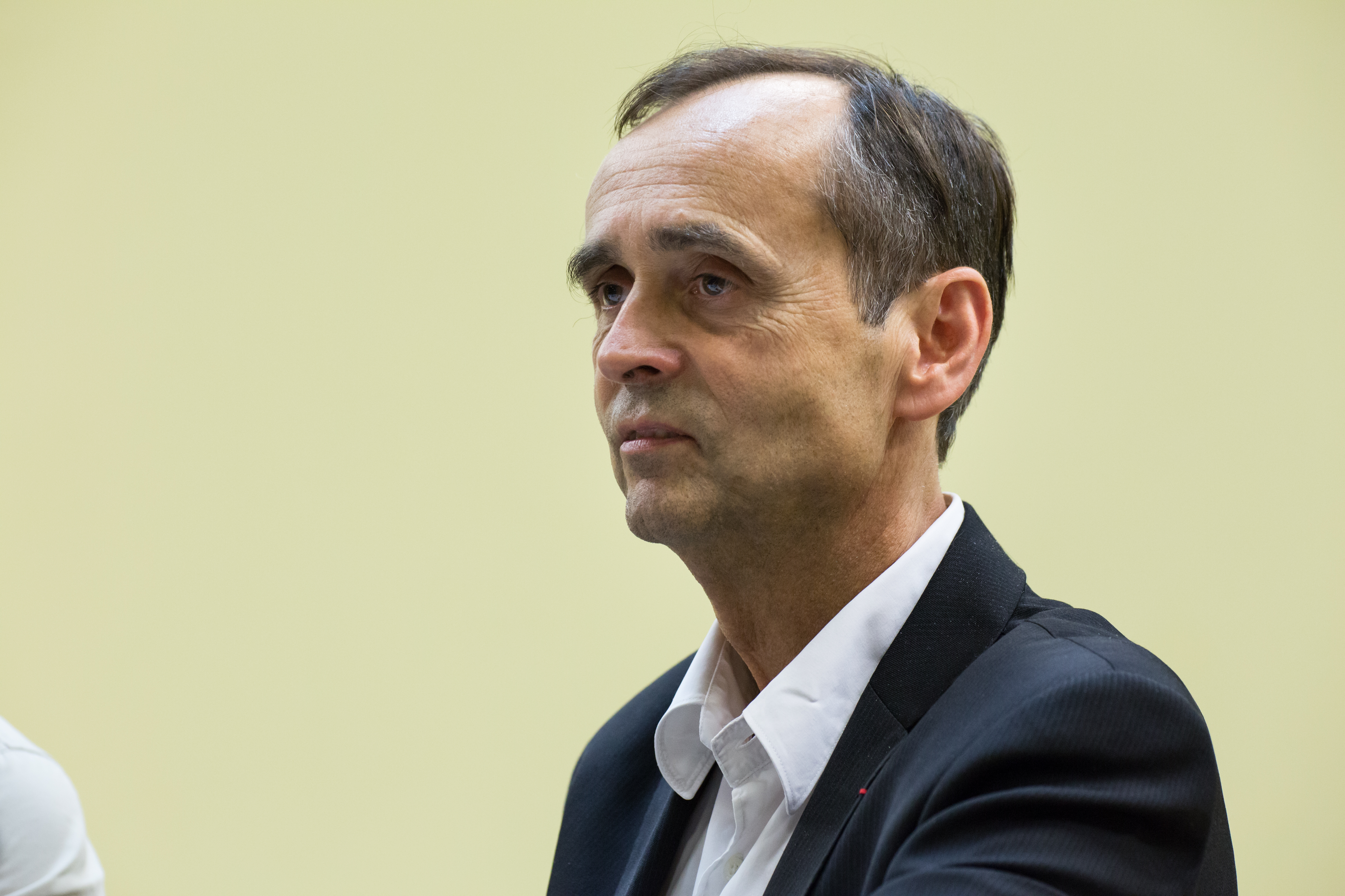 Robert Ménard (Front National mayor of Béziers) conference in Toulouse (France).